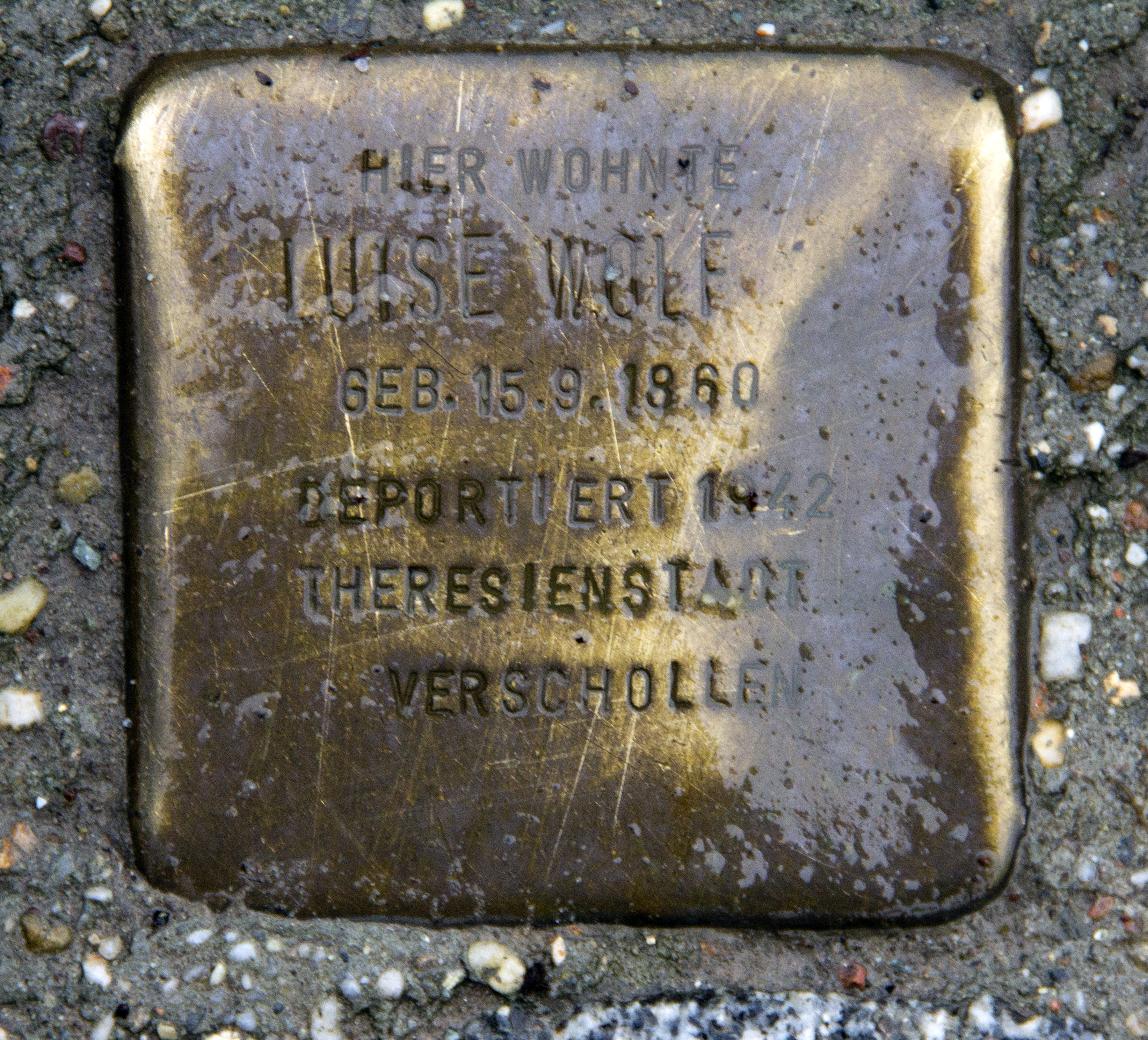 "Stolperstein" (stumbling block), Luise Wolf, Kurfürstenstraße 50, Berlin-Tiergarten, Germany